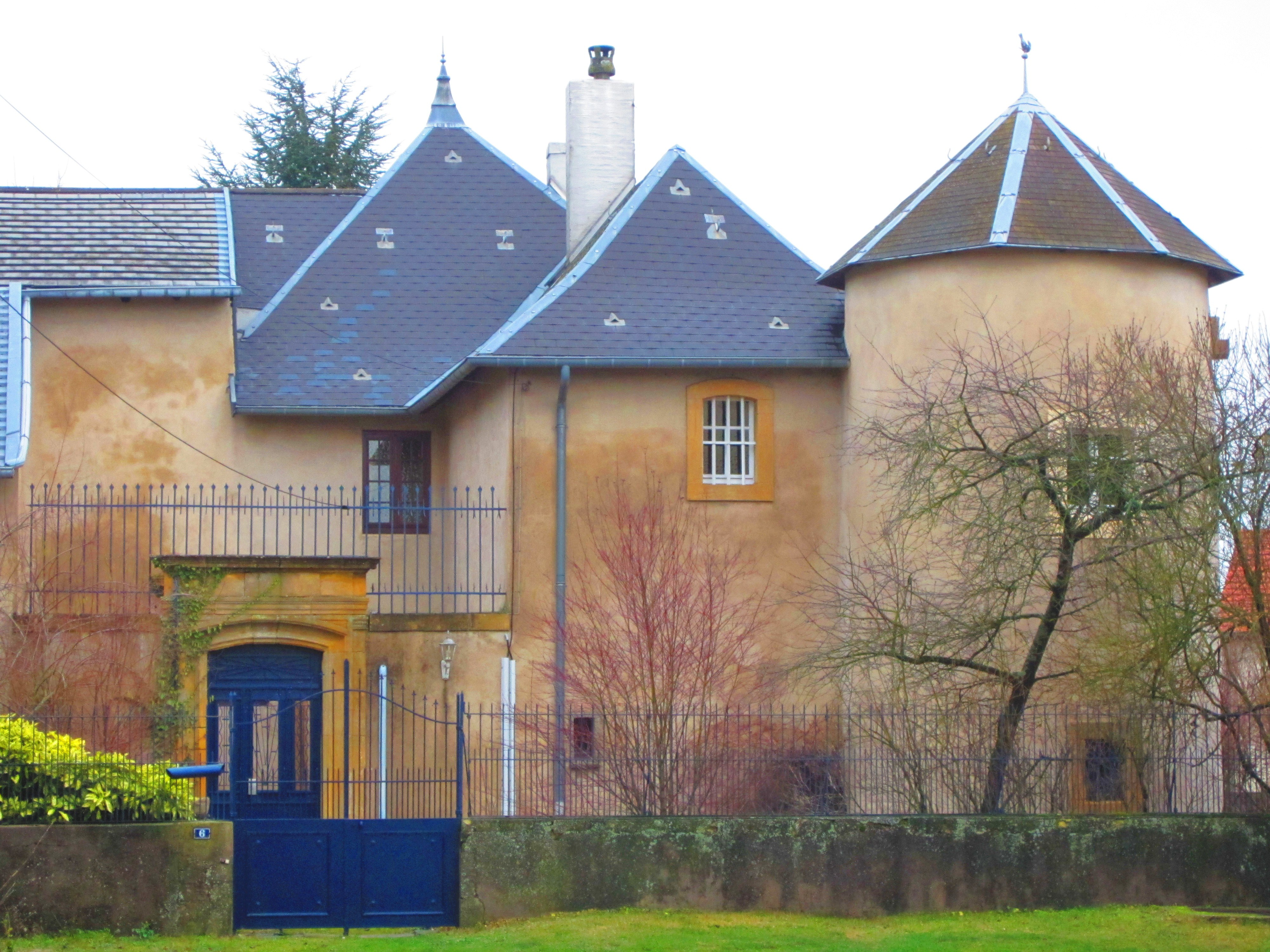 Description chateau Courcelles Nied Date9 January 2012Sourcemon appareil photoAuthorAimelaimePermission (Reusing this file) chateau Courcelles Nied